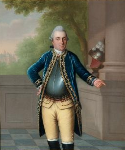 Robert Jasper van der Capellen tot den Marsch (30 April 1743 – 7 June 1814), Dutch nobleman and Patriot leader.